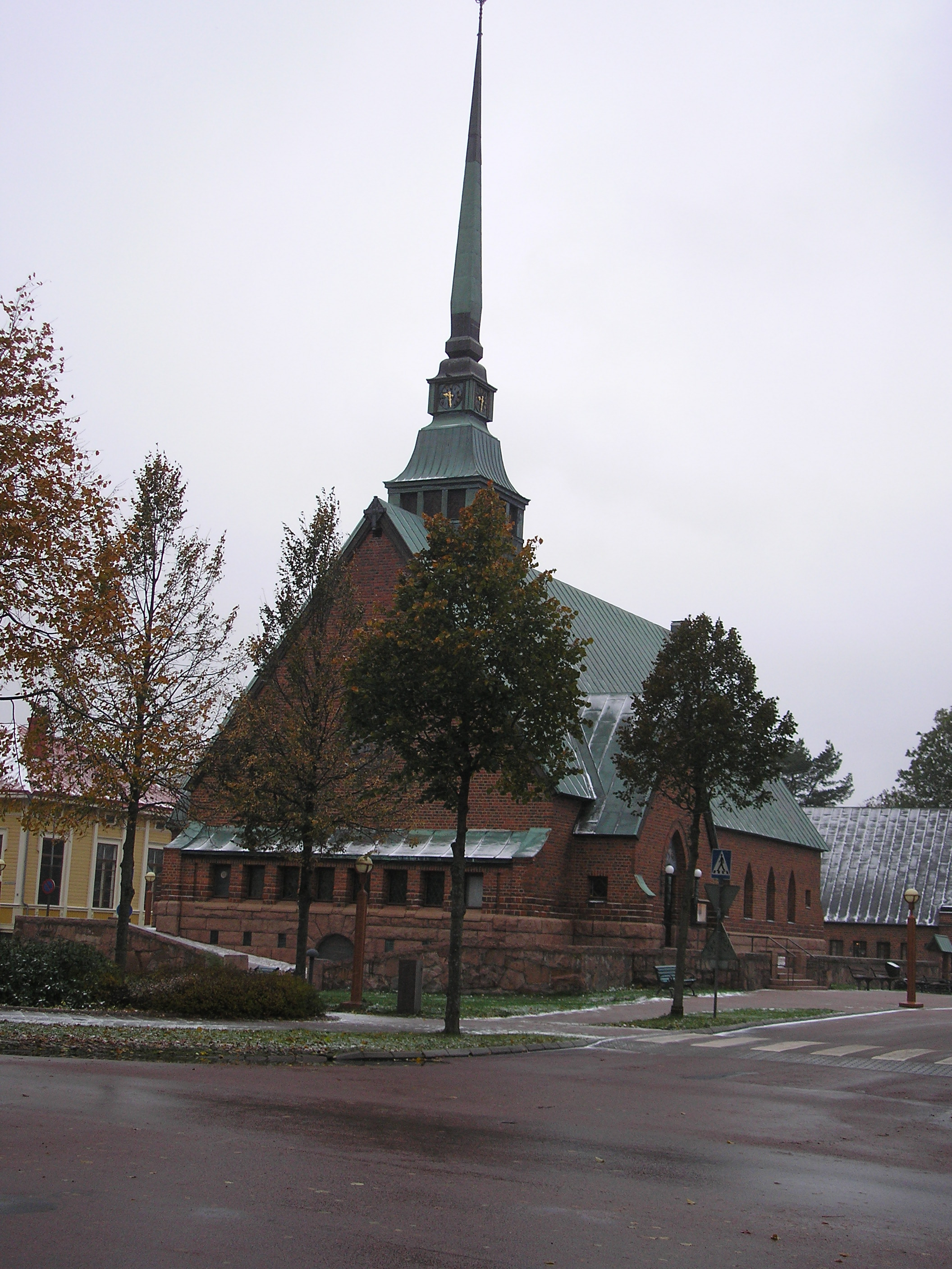 Saint George Church in Mariehamn, Åland, Finland